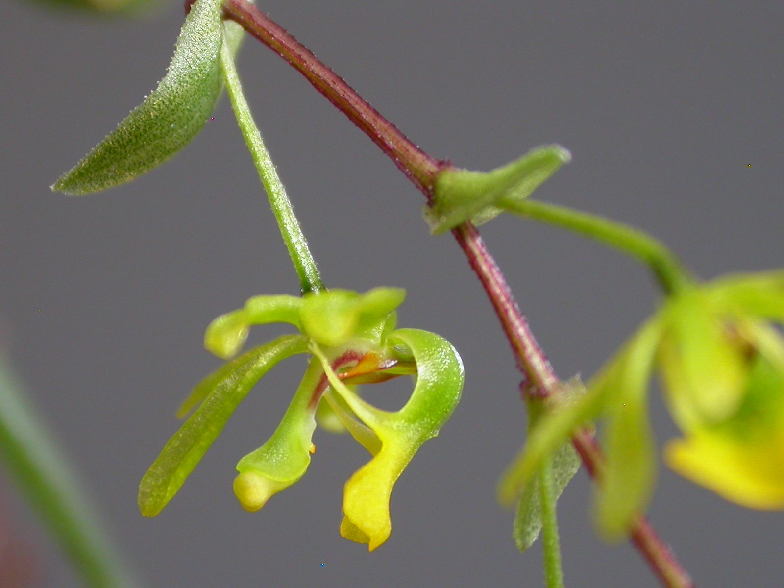 Platyrhiza quadricolor